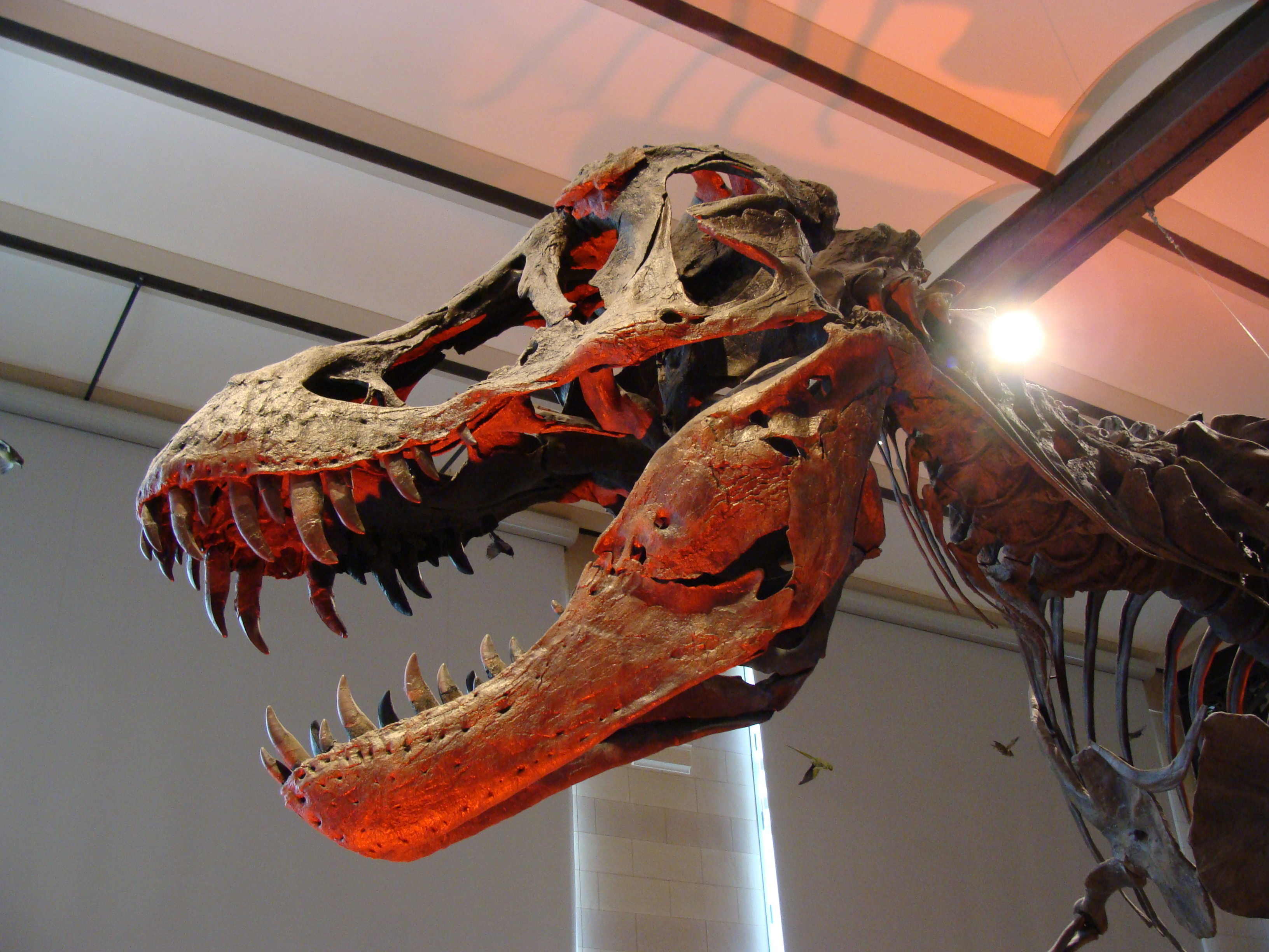 Tyrannosaurus rex in the Royal Belgian Institute of Natural Sciences.